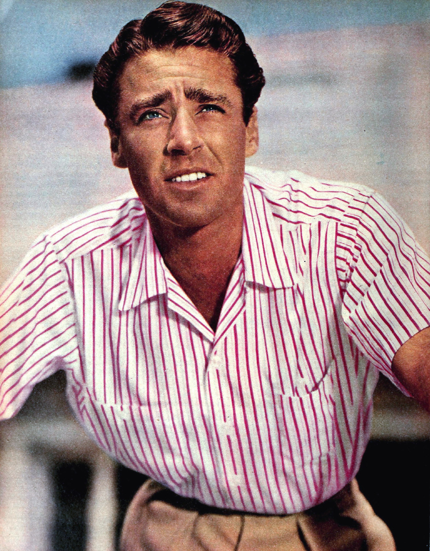 Photo of Peter Lawford.